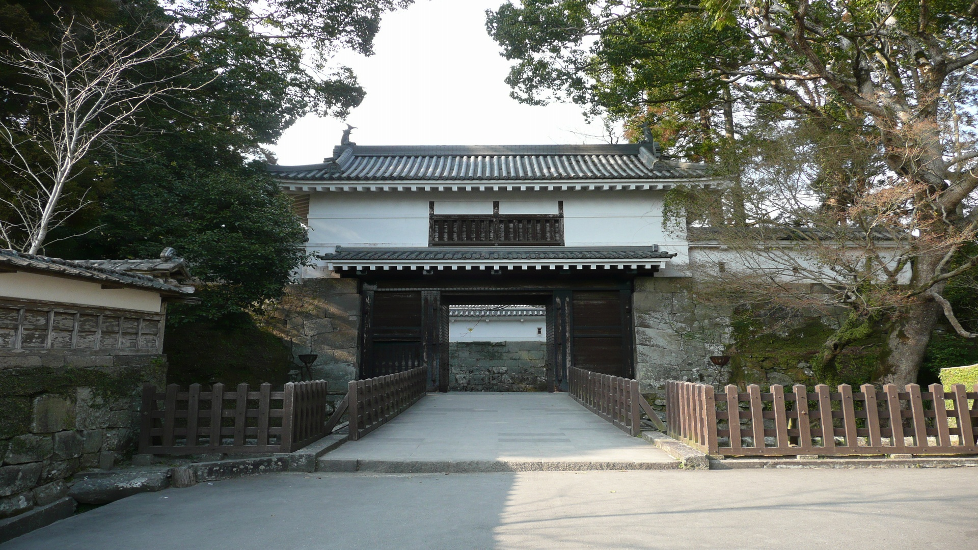 Obi Castle - Otemon (Nichinan City, Miyazaki, Japan)